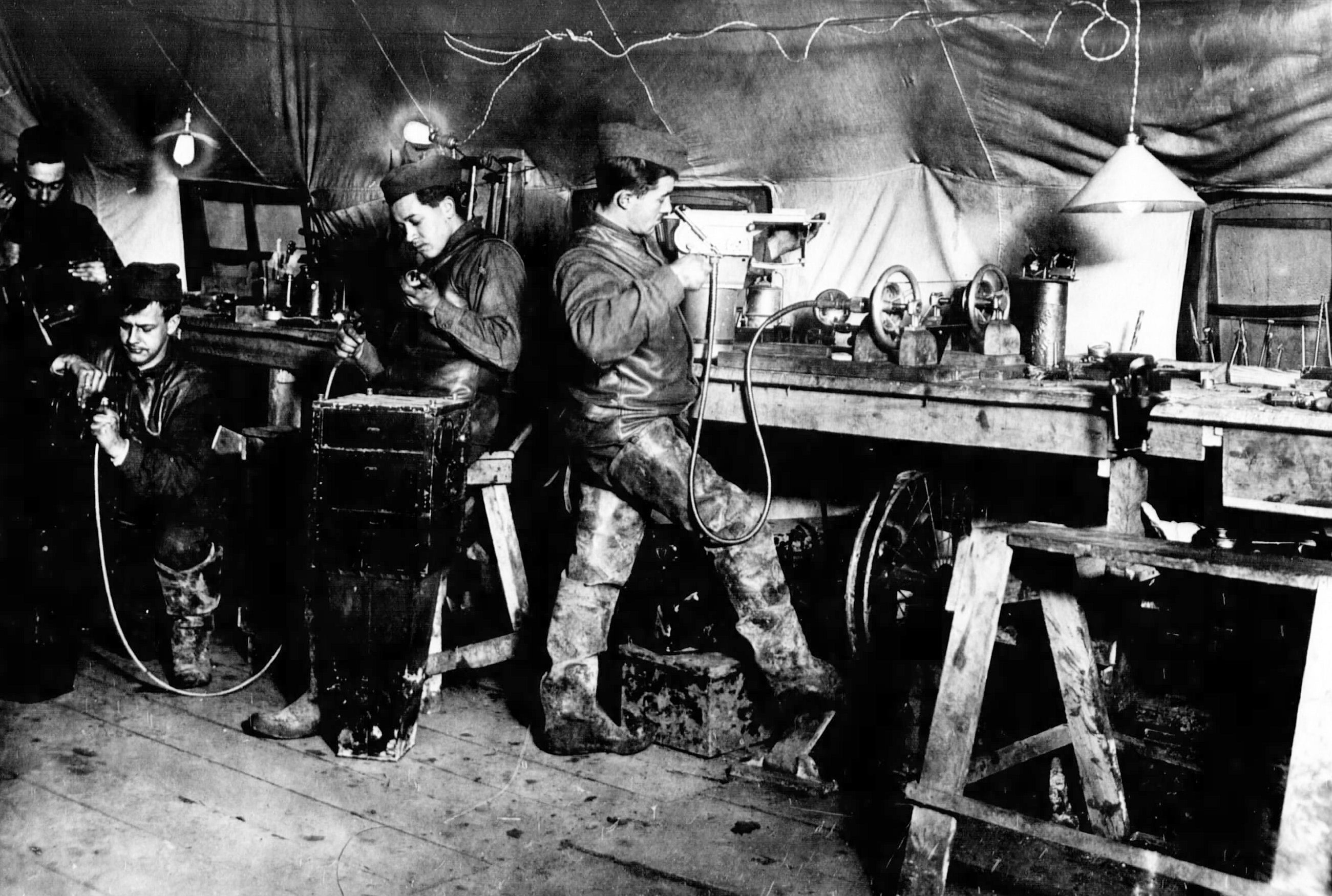 Colombey-les-Belles Aerodrome - 1st Air Depot Machine Shop Source: Series 1, Paris Headquarters and Supply Section, Volume 30 History of the 1st Air Depot at Colombey-led-Belles, Gorrell's History of the American Expeditionary Forces Air Service, 1917–1919, National Archives, Washington, D.C.